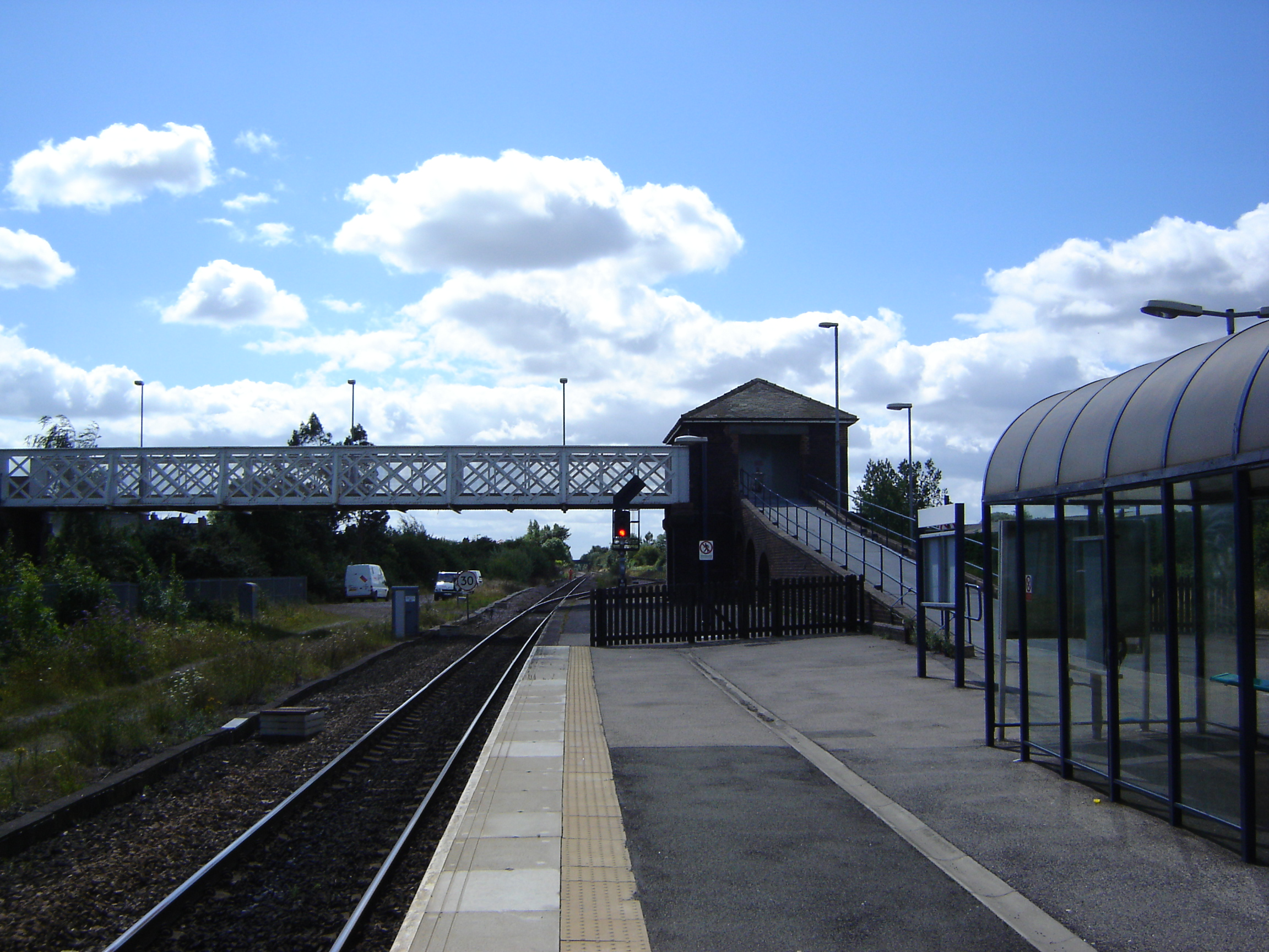 Eaglescliffe railway station, looking south down the Northallerton-Eaglescliffe Line and showing the footbridge which provides access to the island platform. The Tees Valley Line continues west to the right.